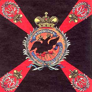 Standard of Moscow 8th Grenadier Regiment